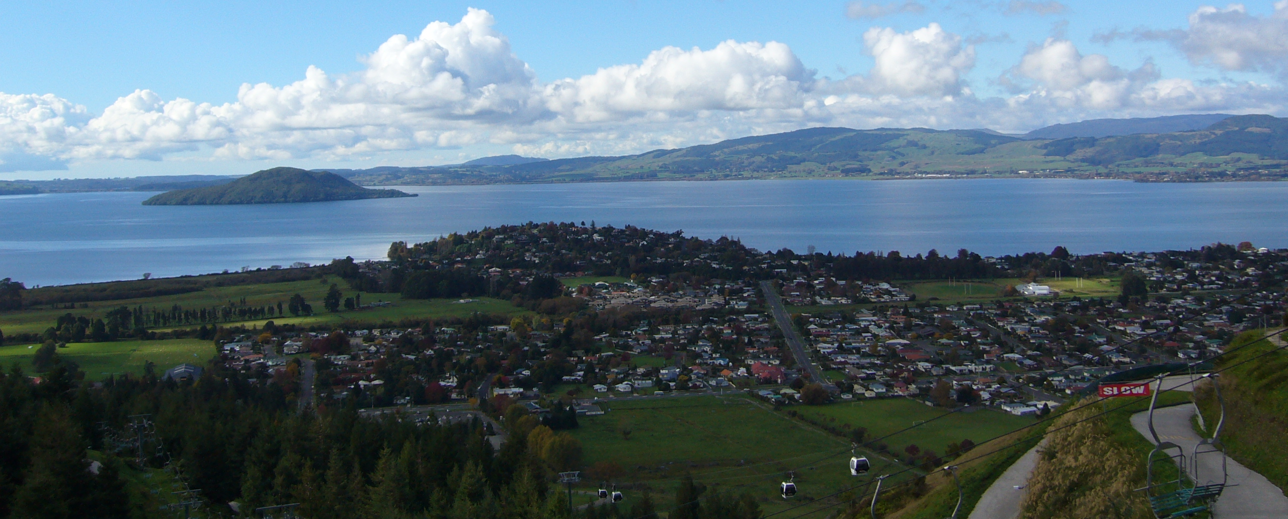 View of the northern part of Rotorua and Lake Rotorua, North Island, New Zealand. Lake Rotorua formed in the Rotorua Caldera, with Mokoia Island in the middle. Taken from a hill near the town.